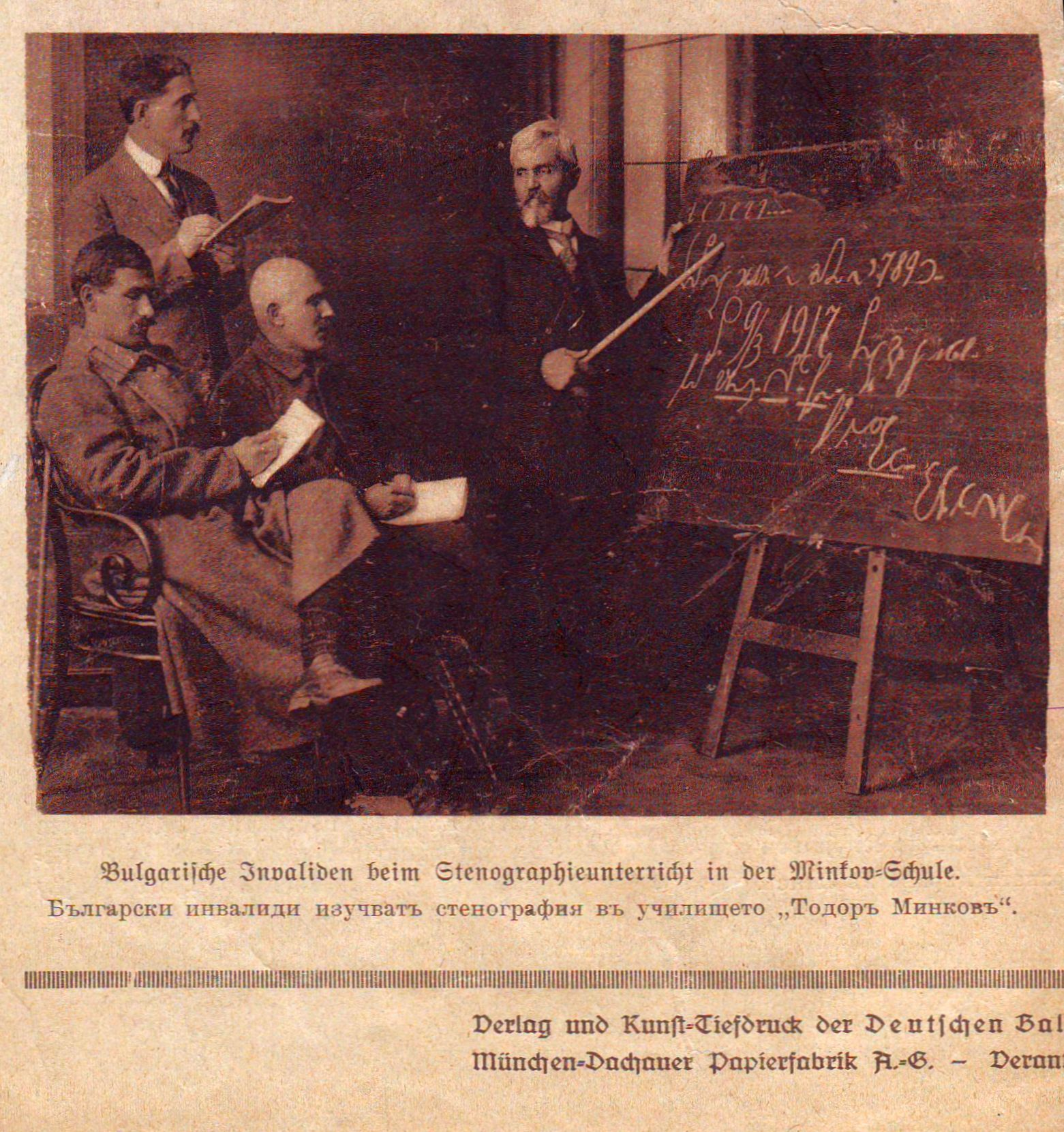 Dimiter Jossifov Teaches Shorthand On the blackboard is written (in Bulgarian stenography): Franz Xaver Gabelsberger was born in Munich in 1789. Sofia, 9/3 1917, Stenography course for disabled (soldiers). Students: Miladinov, Kotsev, Shtilian. Teacher: Jossifov. Photograph: Ivan Karastoyanov